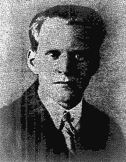 Harald Larsen, NKP